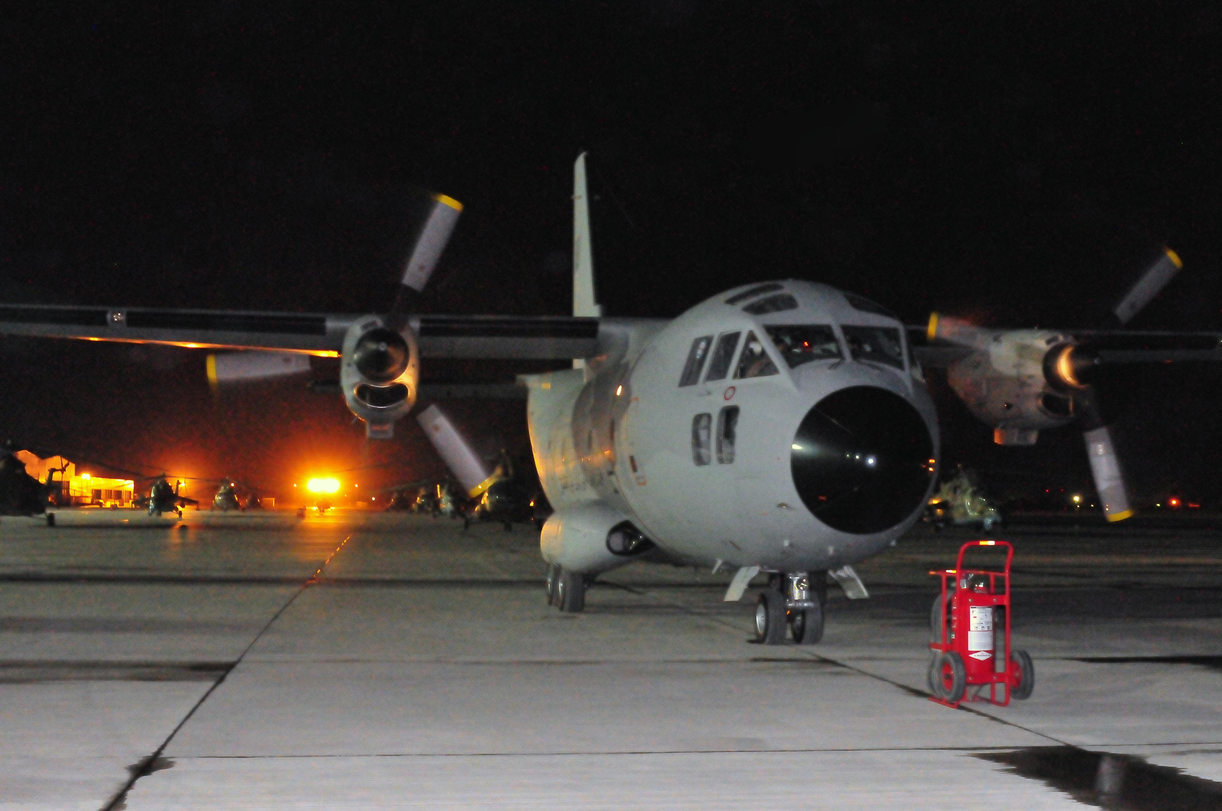 100419-N-6031Q-003 KABUL, Afghanistan -- The newest C-27 transport plane arrives at the Afghan National Army Air Corps base in Kabul, Afghanistan on April 18, 2010. (US Navy photo by Mass Communication Specialist 2nd Class David Quillen/ RELEASED).